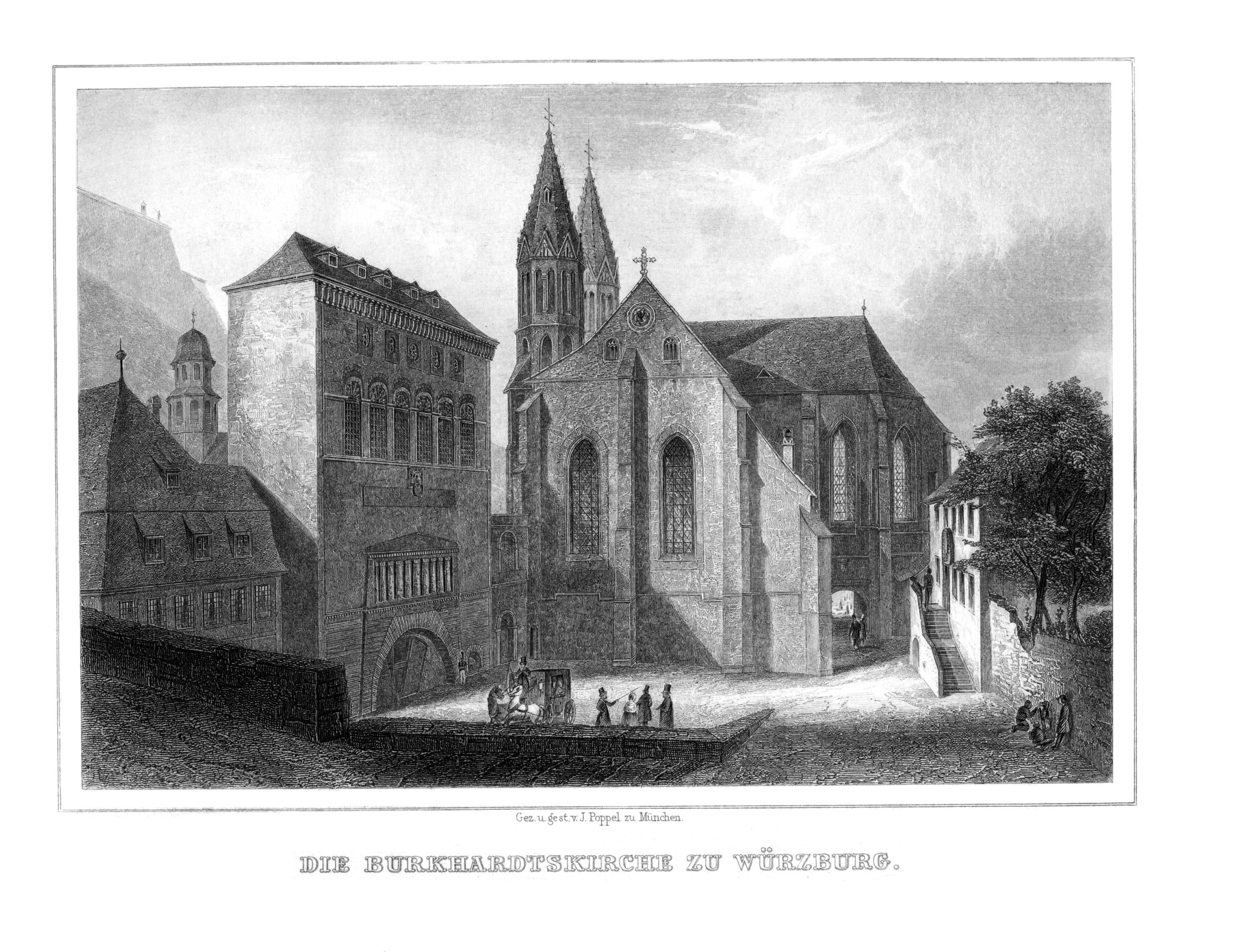 St. Burkhardts Kirche Wuerzburg, Germany